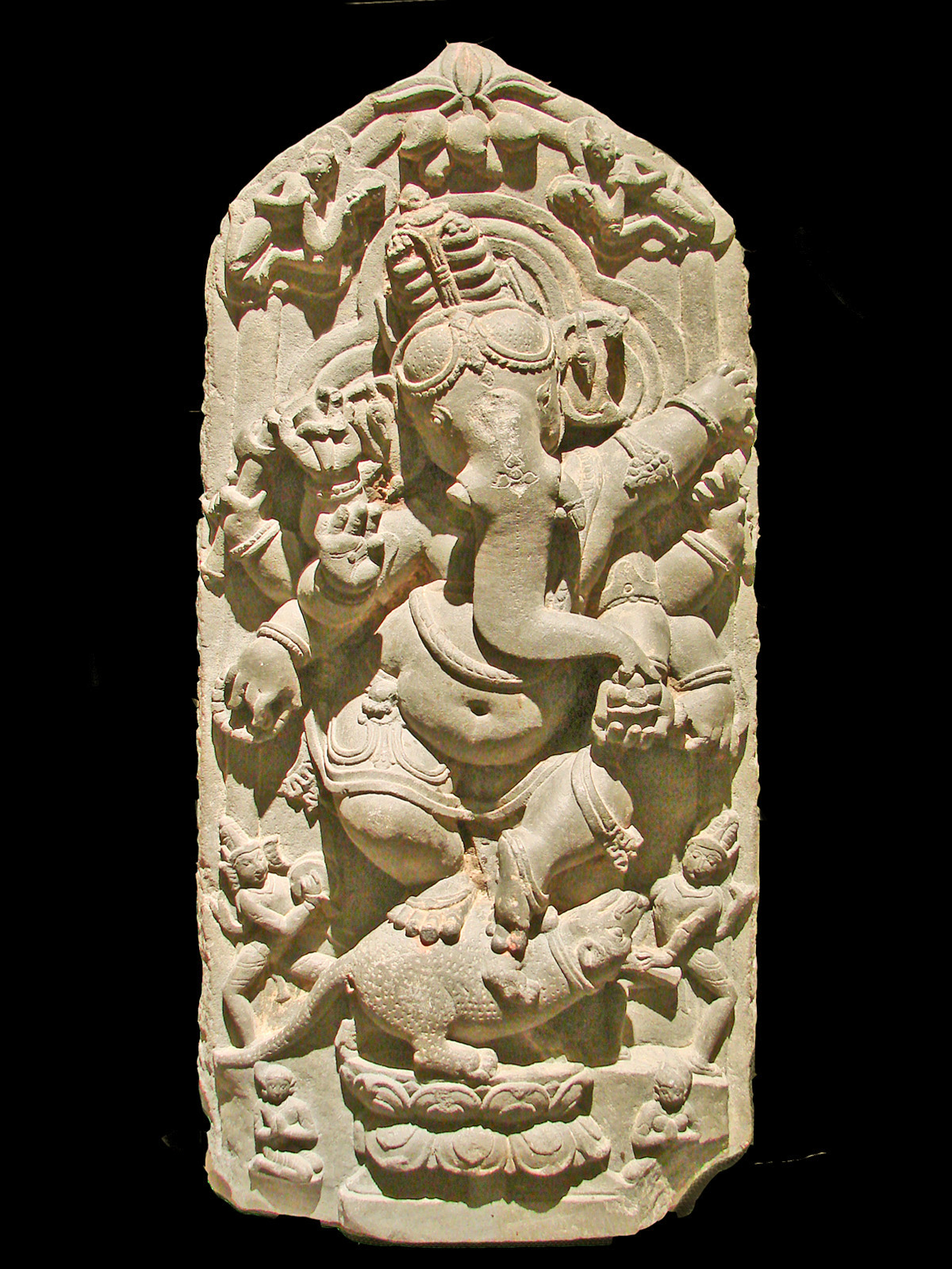 Dancing Ganesh (Ganesha) sculpture from North Bengal, 11th century AD, Asian Art Museum of Berlin (Dahlem), slate, 56.5 x 25.0 cm, Inv.-Nr. I, 5855